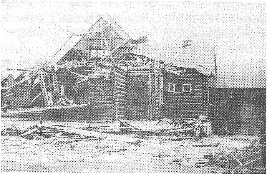 Levitana street 4 in Moscow (Sokol Settlement) damaged after ANT-20 "Maxim Gorky" crash.